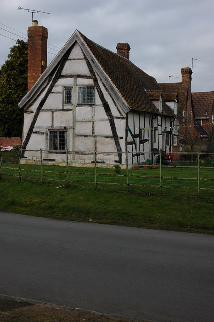 Old School Cottages, Wick, Worcestershire, showing cruck frame